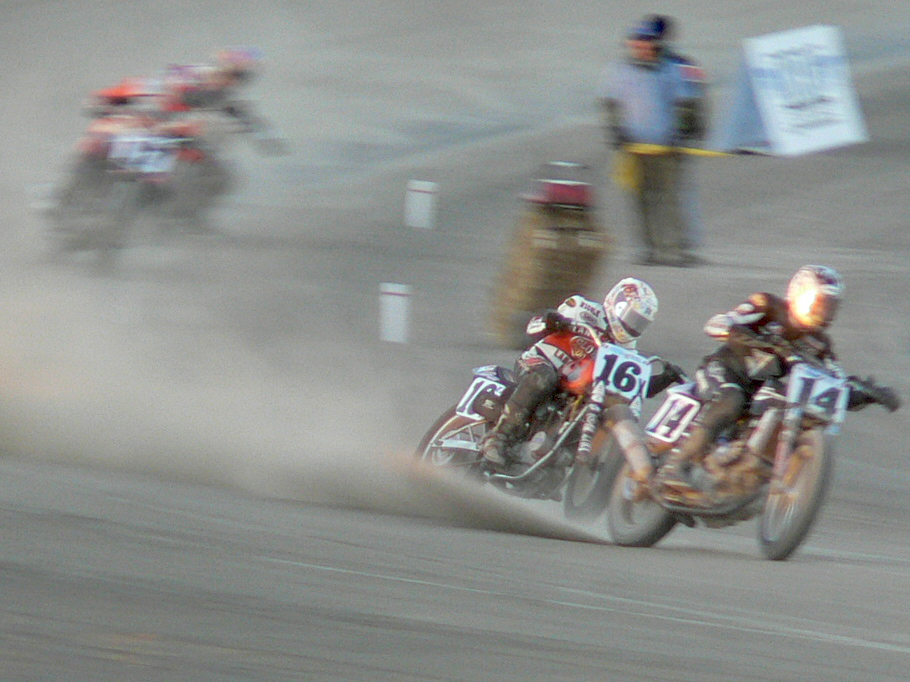 Turn 4 action , coming down to the flag. If your not in first I don't think you can really see anything. This shot doesn't really show you just how dusty it really is. I would have tried to get a lot closer to the track but if you see the guy in the lower left hand corner. They wouldn't let us stand down there because they were shooting video and I would have been in the way.